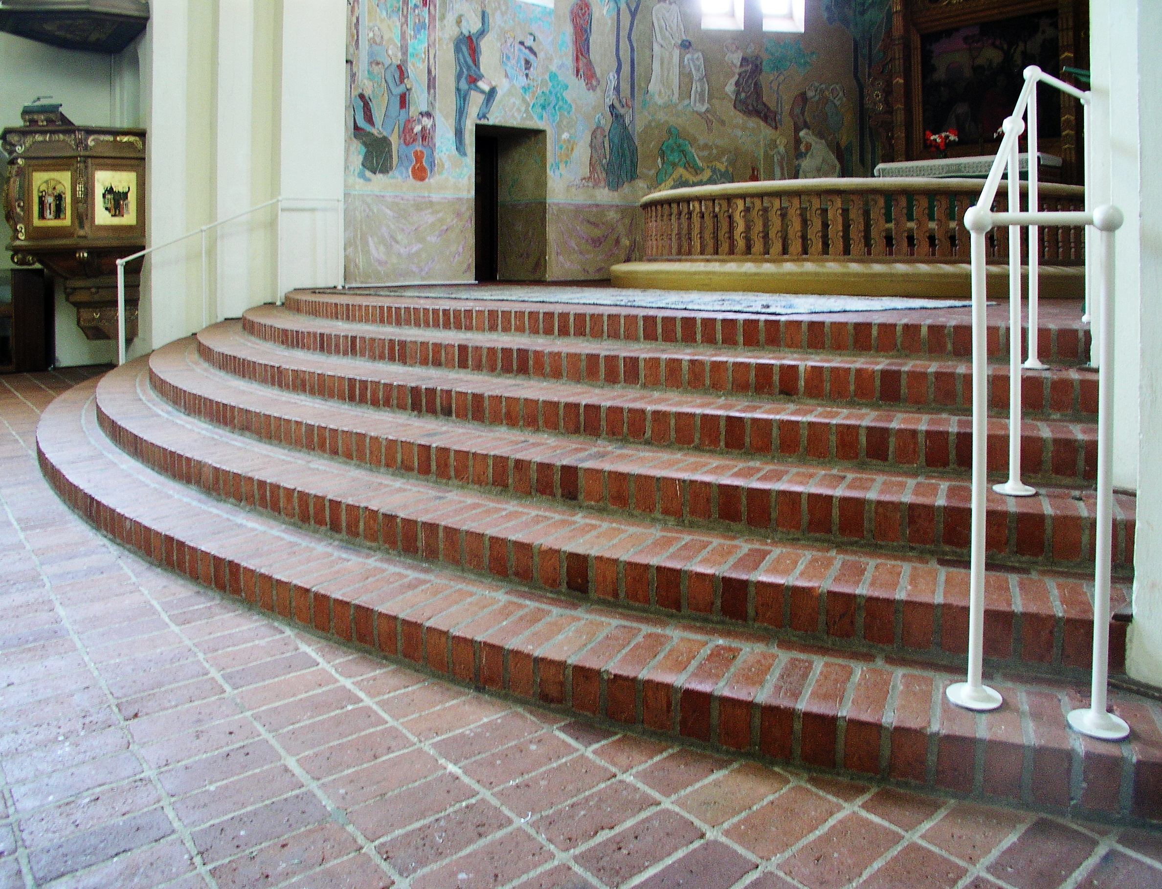 Trefaldighetskyrkan, Arvika, Diocese of Karlstad, Sweden. The picture was taken the 11th of July 2003 by Håkan Svensson (Xauxa)